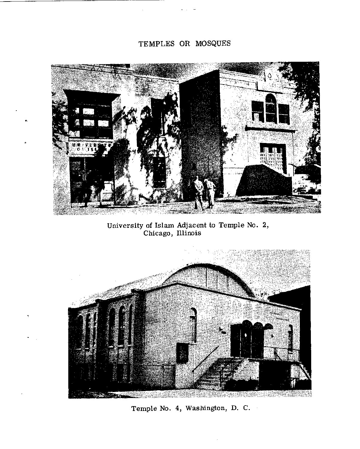 Page from 1960 FBI primer on Nation of Islam This image or file is a work of a Federal Bureau of Investigation employee, taken or made as part of that person's official duties. As a work of the U.S. federal government, the image is in the public domain.